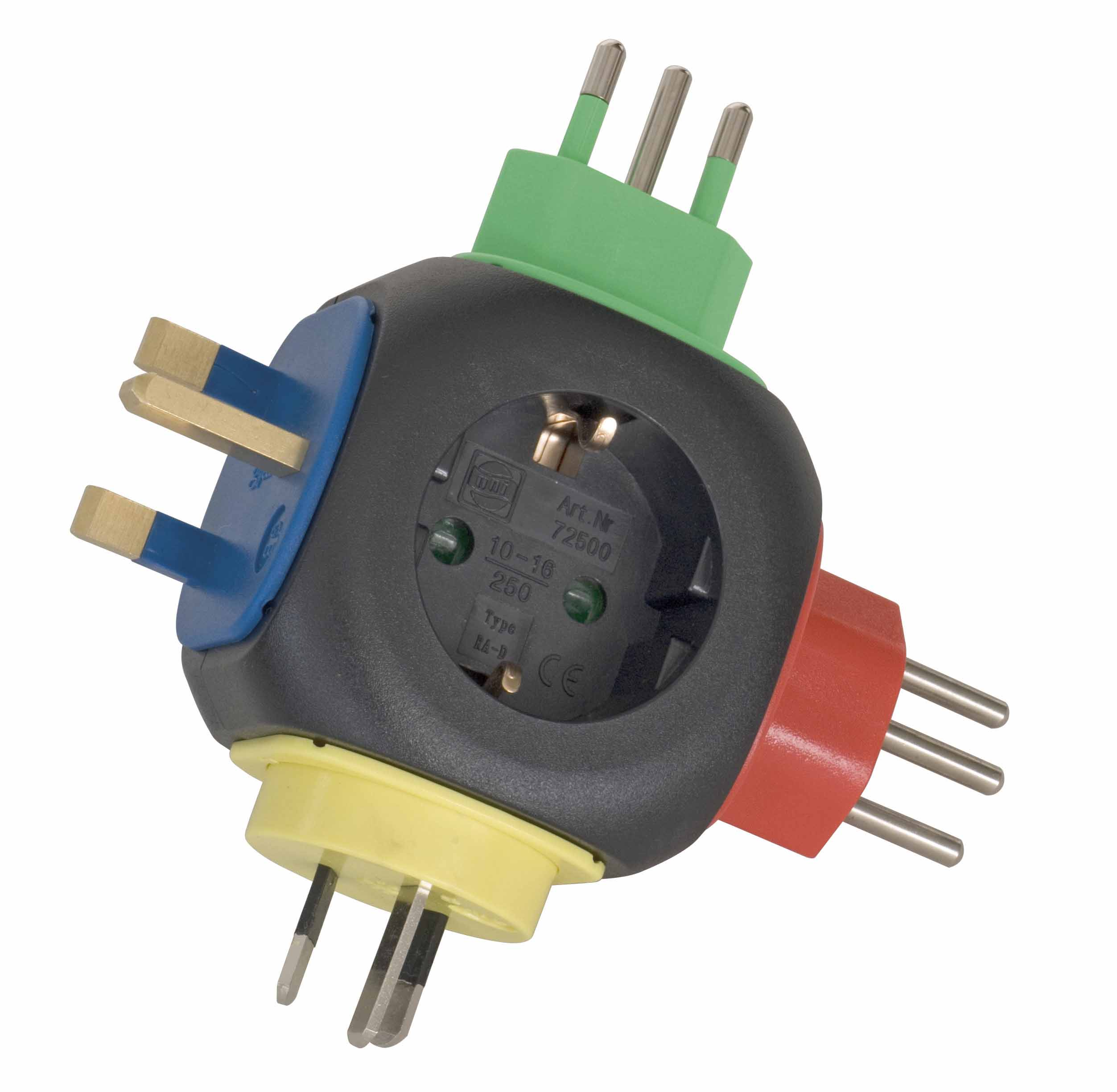 A a grounded/earthed (3 pole) travel adapter for equipment with either a Europlug (Type C) or Schuko (Type F or CEE 7/7 hybrid plug type E/F). The pictured adapter allows connection to the following types of wall outlets: • Yellow for Australian type I • Blue for British type G- The green and red plugs in the picture are unconfirmed, but may be two of the following three (incompatible) types: • (1) Swiss type J,• (2) Italian type L (if so, specifically the narrow 10 A version),• (3) South African type N.